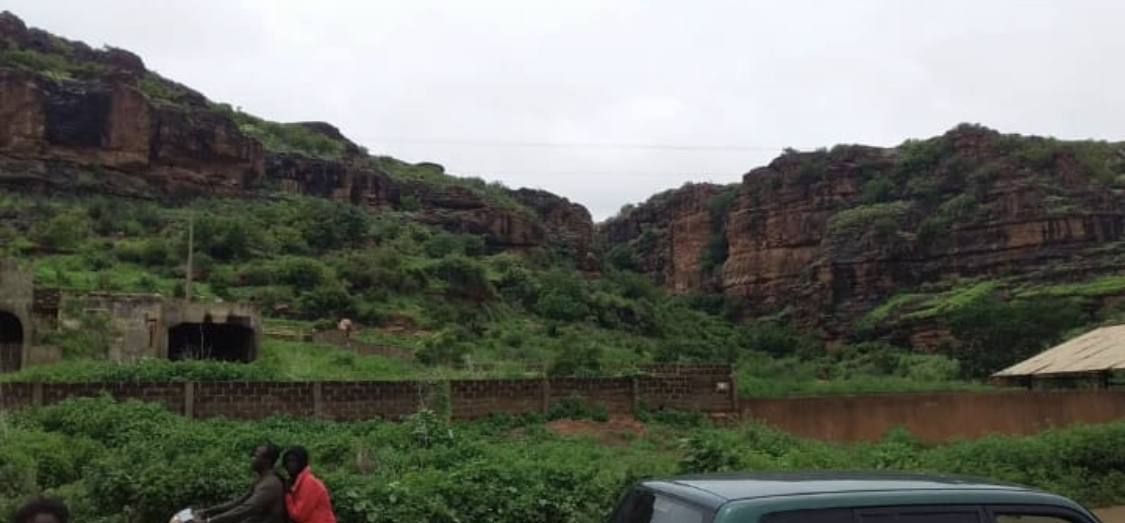 This is an image with the theme "Africa on the Move or Transport" from: Mali